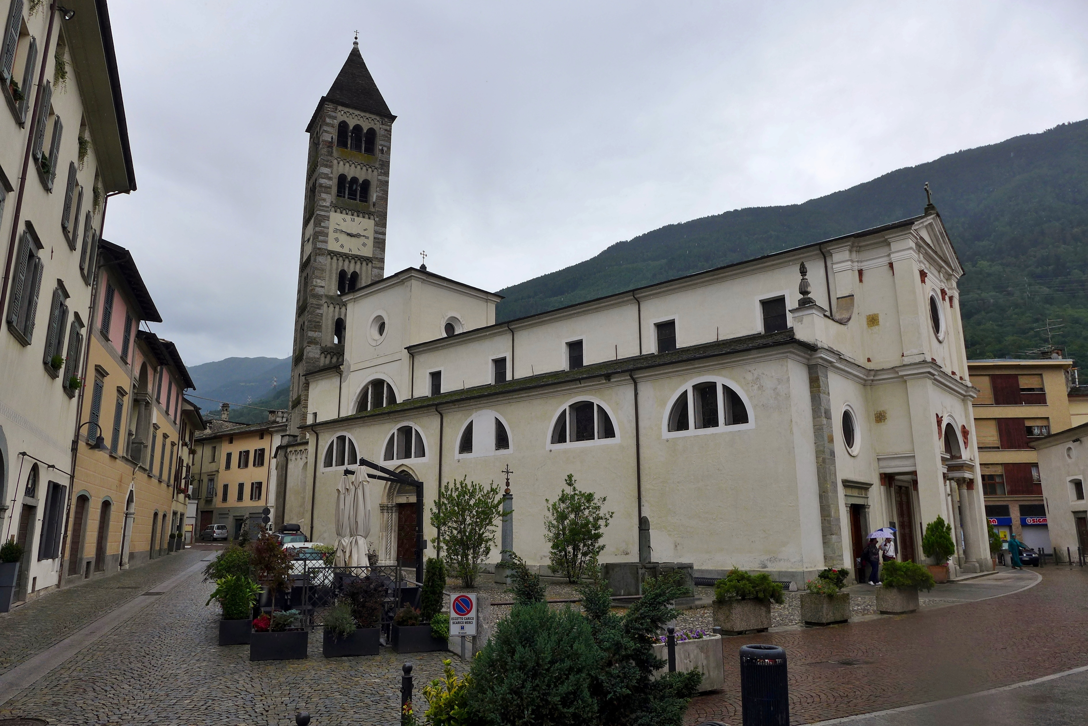 View of the Chiesa San Martino in Tirano, Italy.